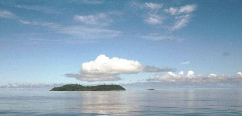 The islands Run (left) and Nailaka, in the western part of the Banda Islands